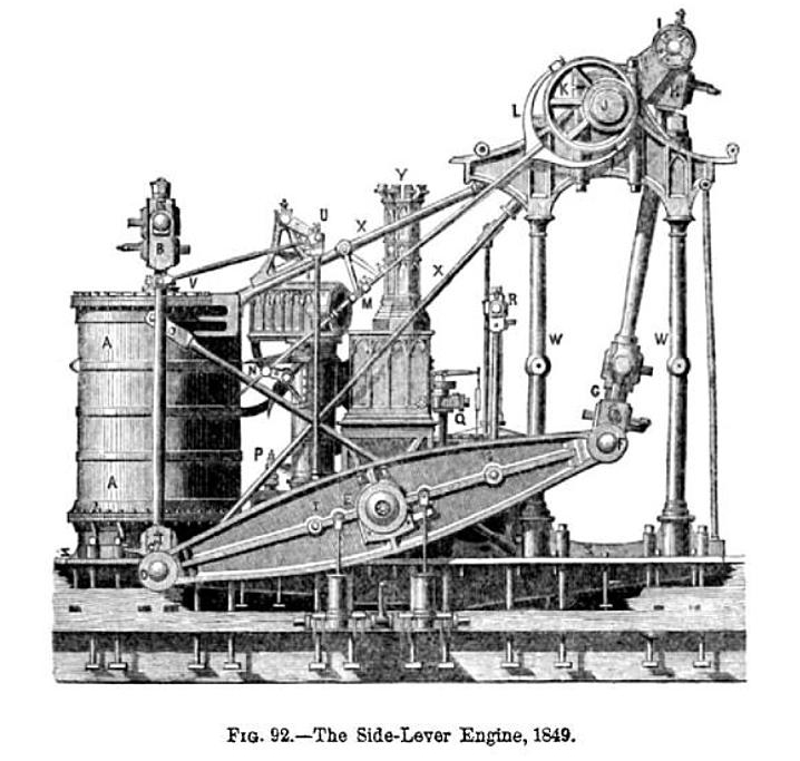 Lateral view of a side-lever engine of the SS Pacific (1849). The engine was built by the Allaire Iron Works of New York.